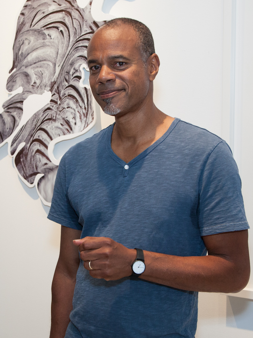 Artist Todd Gray at an exhibition of his work, entitled The Gray Room, at the Hagedorn Foundation Gallery, Atlanta, on July 13, 2012. He also performed selections from his performance piece Caliban in the Mirror.